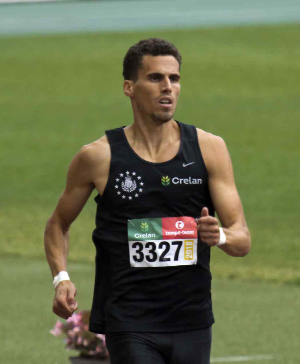 2018 Belgian Athletics Championships Brussels